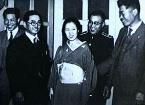 Picture of Sada Abe arrest on May 20, 1936. As such this photographic image was published before 31st December 1956 and photographed before 1946 and not published for 10 years thereafter in Japan.